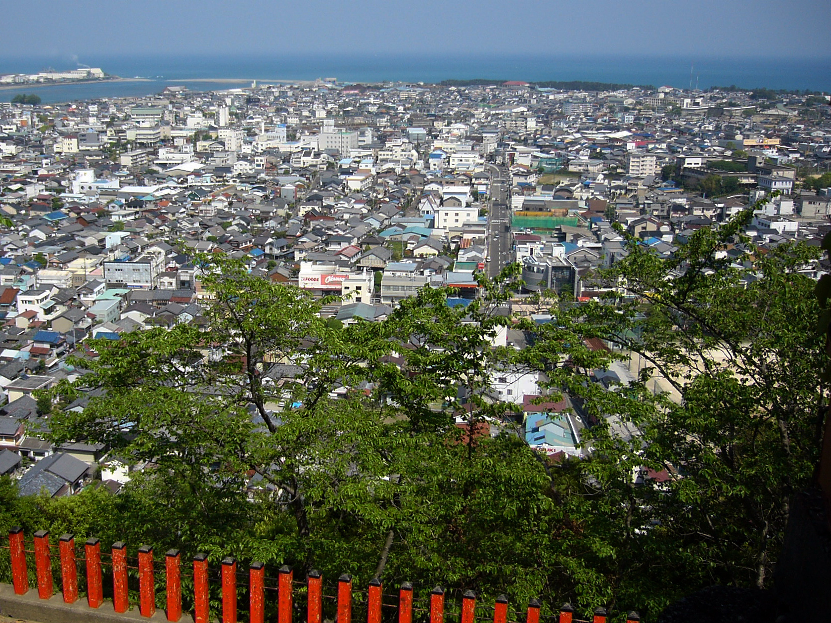 Kamikura-jinja, Shingu, Wakayama prefecture, Japan